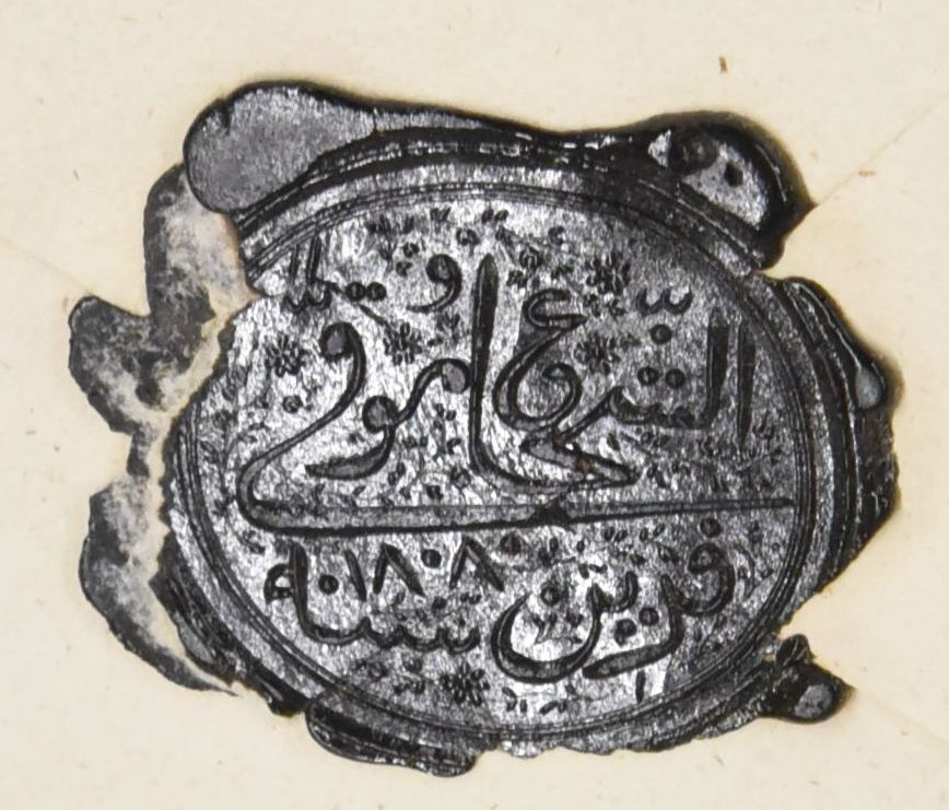 Seal of Christian Martin Joachim (von) Frähn (1826).used on a letter to Samuel Gottlieb Rudolf Henzi. Found on a letter in the 7th folder of the Manuscriptarchiv of Henzi in the University Library of Tartu.